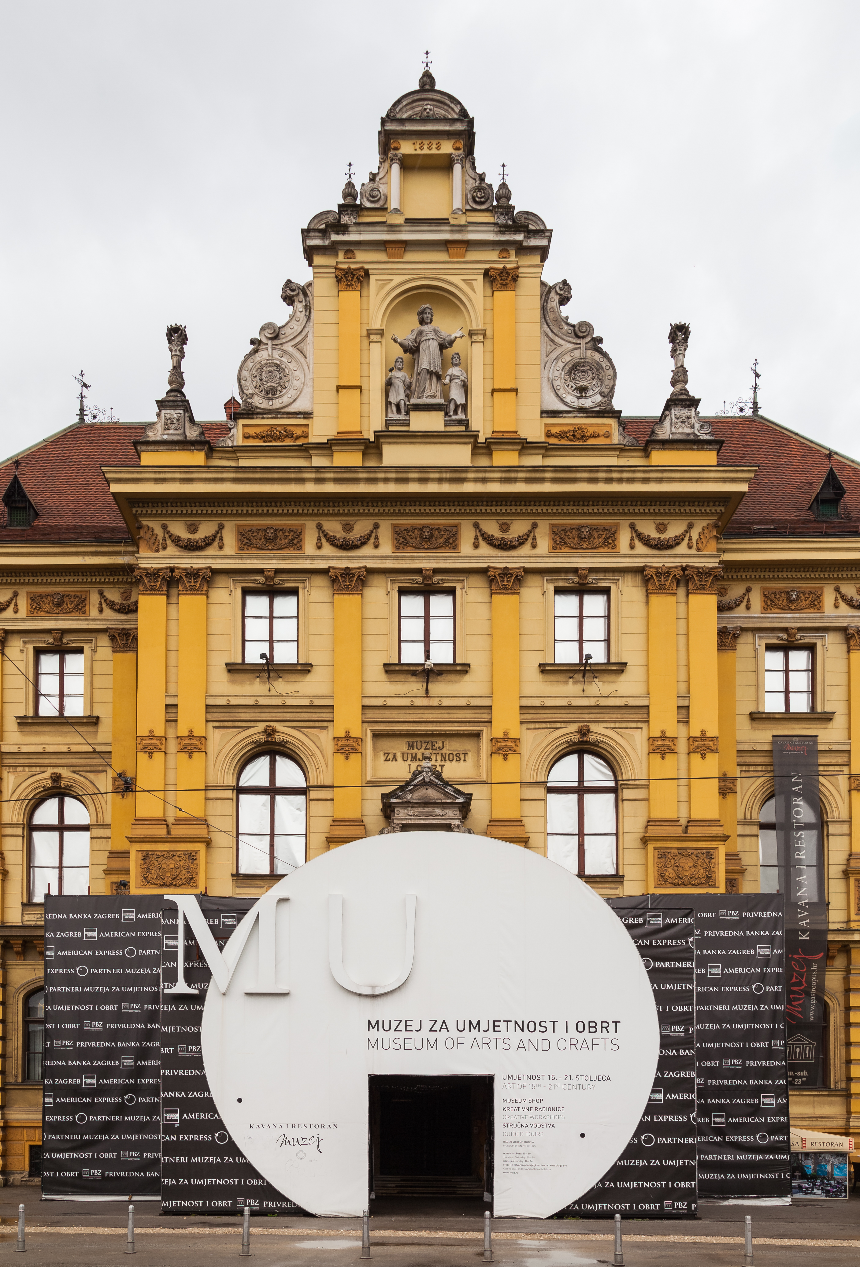 Arts and Crafts Museum, Zagreb, Croatia